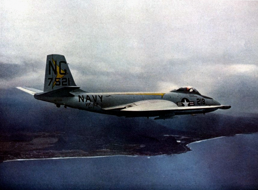 U.S. Navy McDonnell F2H-3 Banshee (BuNo 127521) of Fighter Squadron VF-92 Det.N "Silver Kings" in flight. VF-92 Det.N was assigned to the aircraft carrier USS Yorktown (CVS-10) for a deployment to the Western Pacific from 1 November 1958 to 21 May 1959.